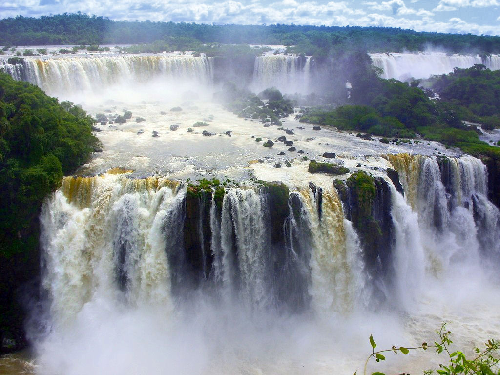 Iguaçu falls